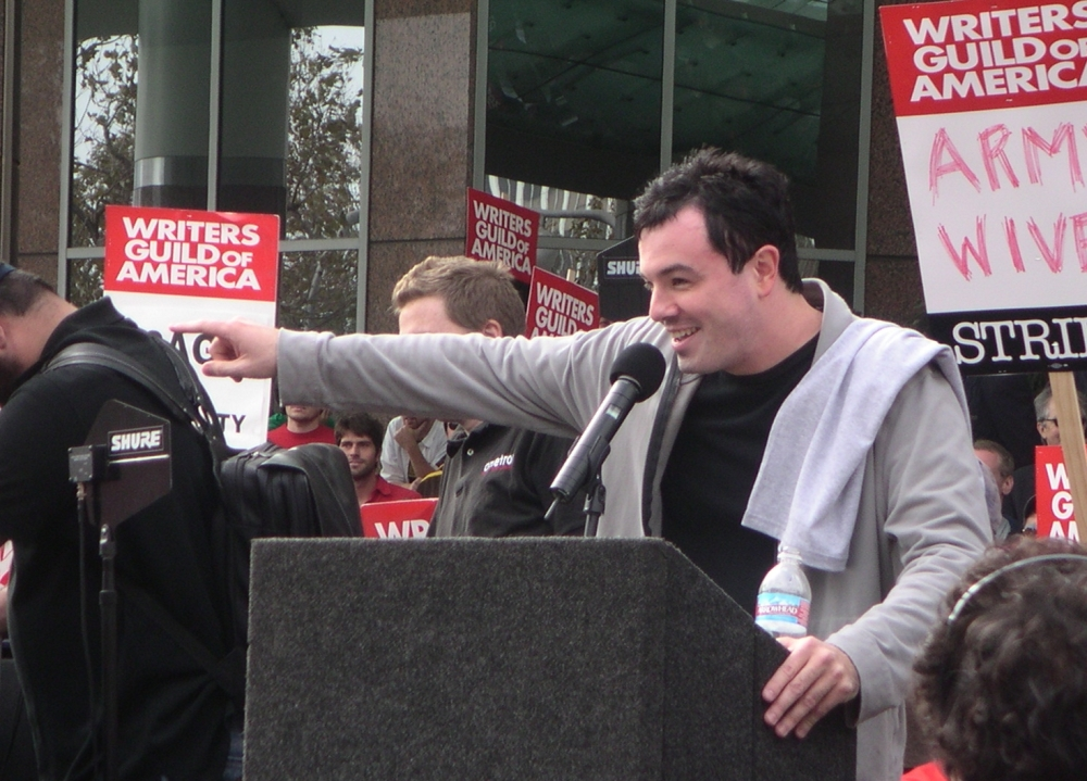 Seth MacFarlane speaking at a WGAw rally. I created this image myself at the WGA rally in Culver City on Fri, Nov 9 2007 and I am releasing it to the public domain. Have fun, world.